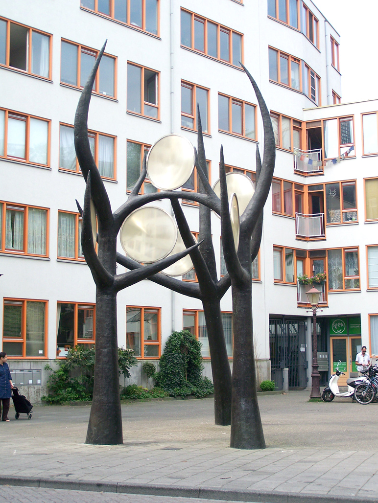 Statue "3 bomen, zes lenzen" (Three trees, six lenses), made by Thomas William Puckey in 1989. Situated in the Binnengasthuisstraat in Amsterdam.